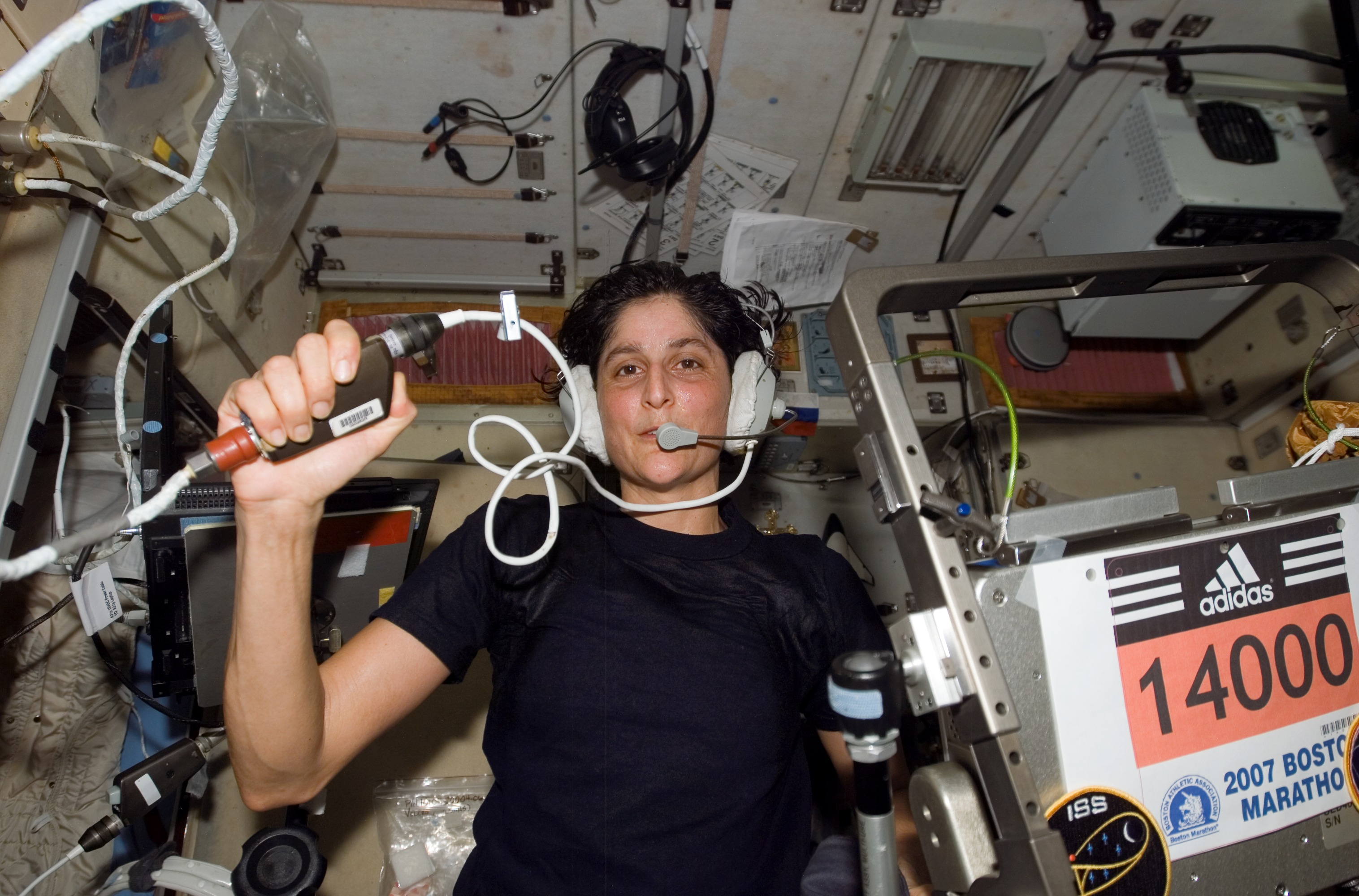 Astronaut Sunita Williams, Expedition 14 flight engineer, circled Earth almost three times as she participated in the Boston Marathon from space. She is seen here with her feet off the station treadmill on which she ultimately ran about six miles per hour while flying more than five miles each second